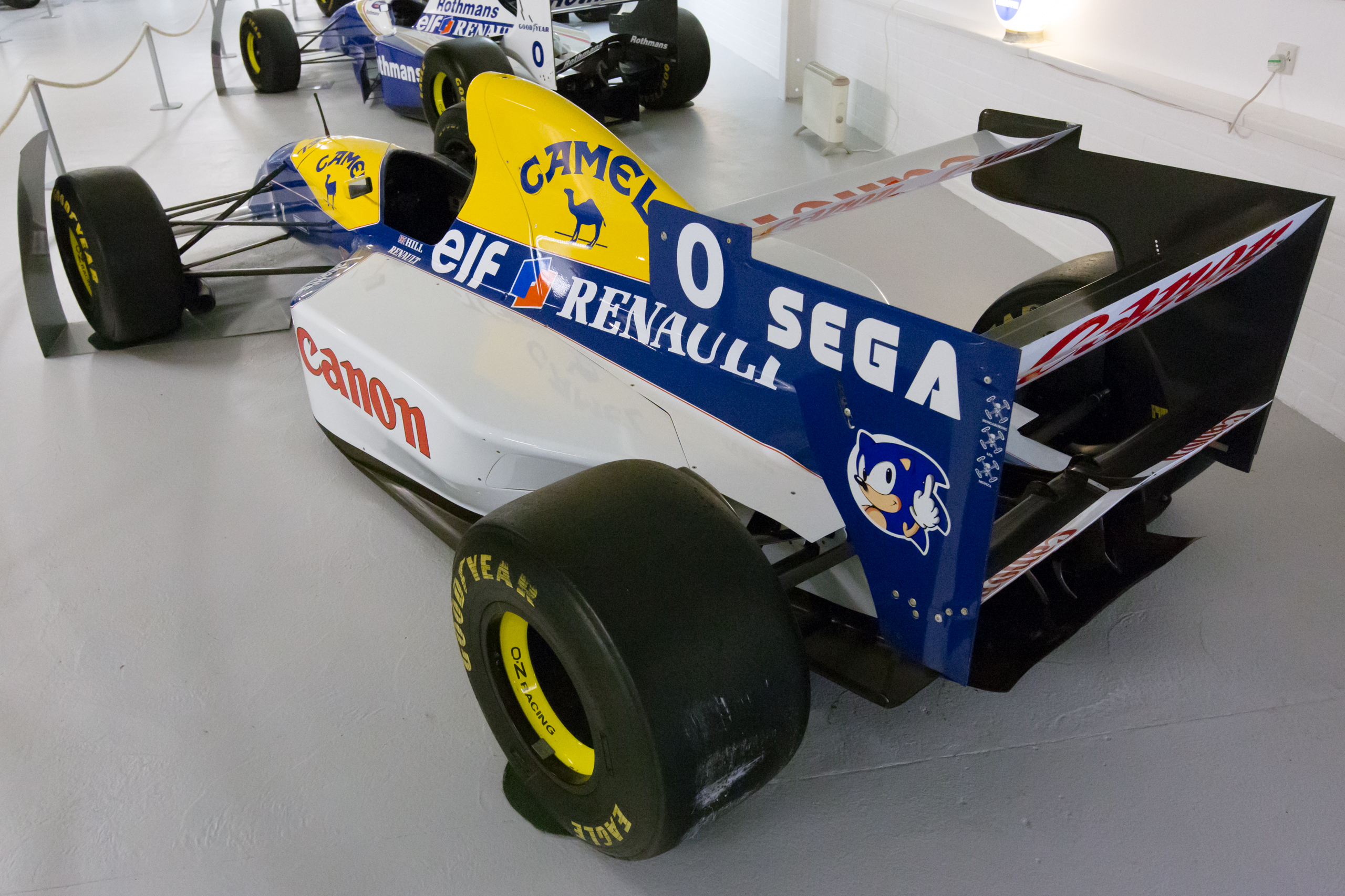 1993 Williams FW15C (#0 Damon Hill)